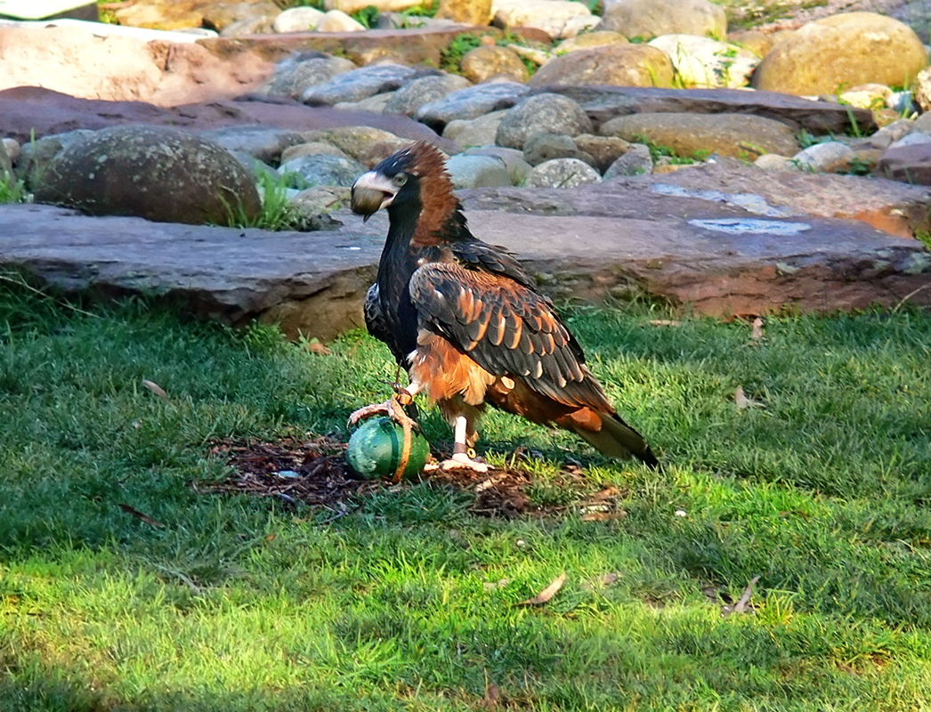 Black breasted buzzard (Hamirostra melanosternon) Stage two